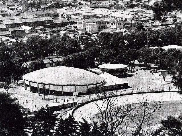 Ehime Convention Hall — Kenzo Tange Arch. & Ass. Yosikatu Tuboi Built in 1953 in Ehime Prefecture - Japan.